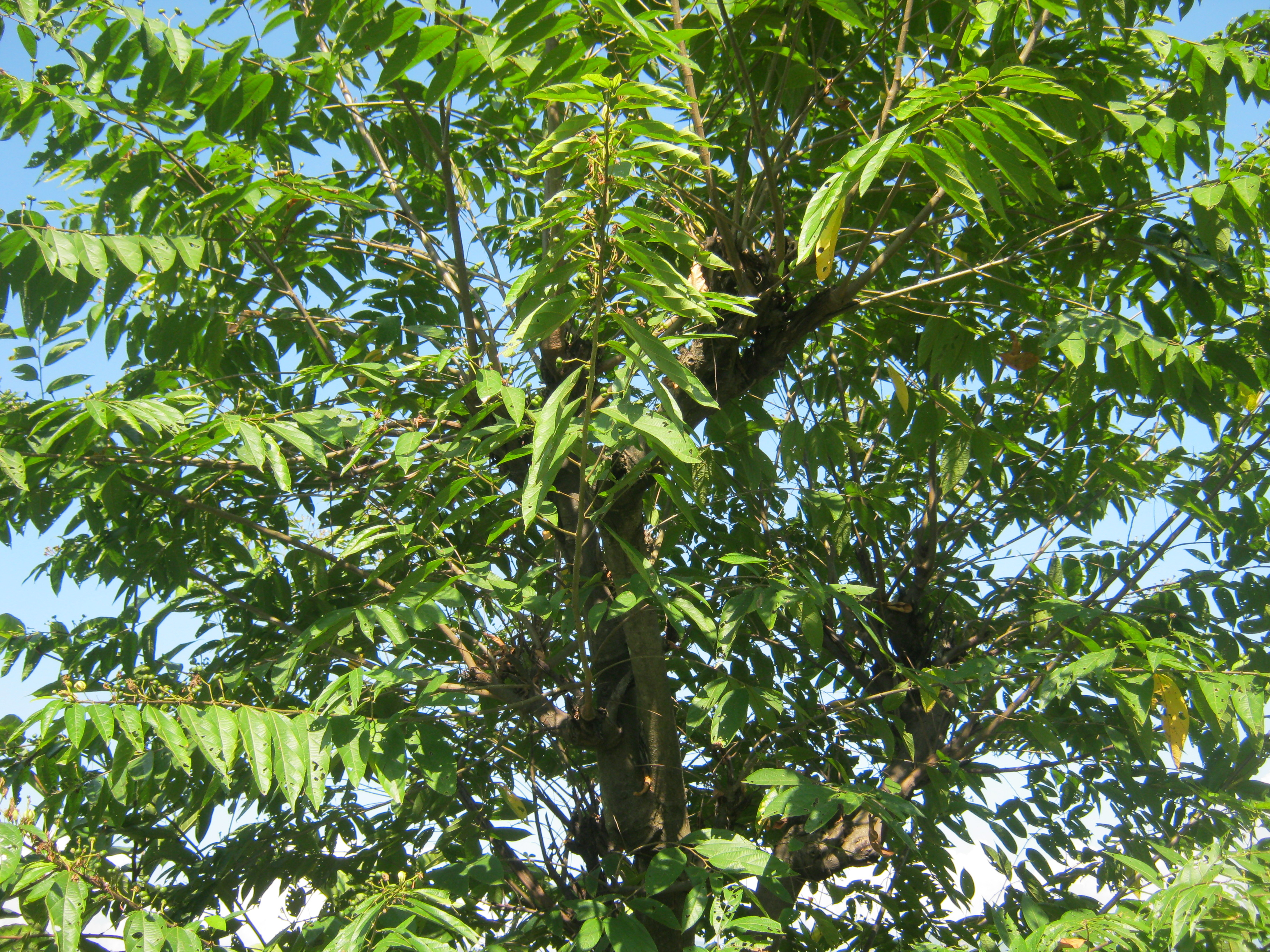 Celtis australis in Panchkhal Valley.